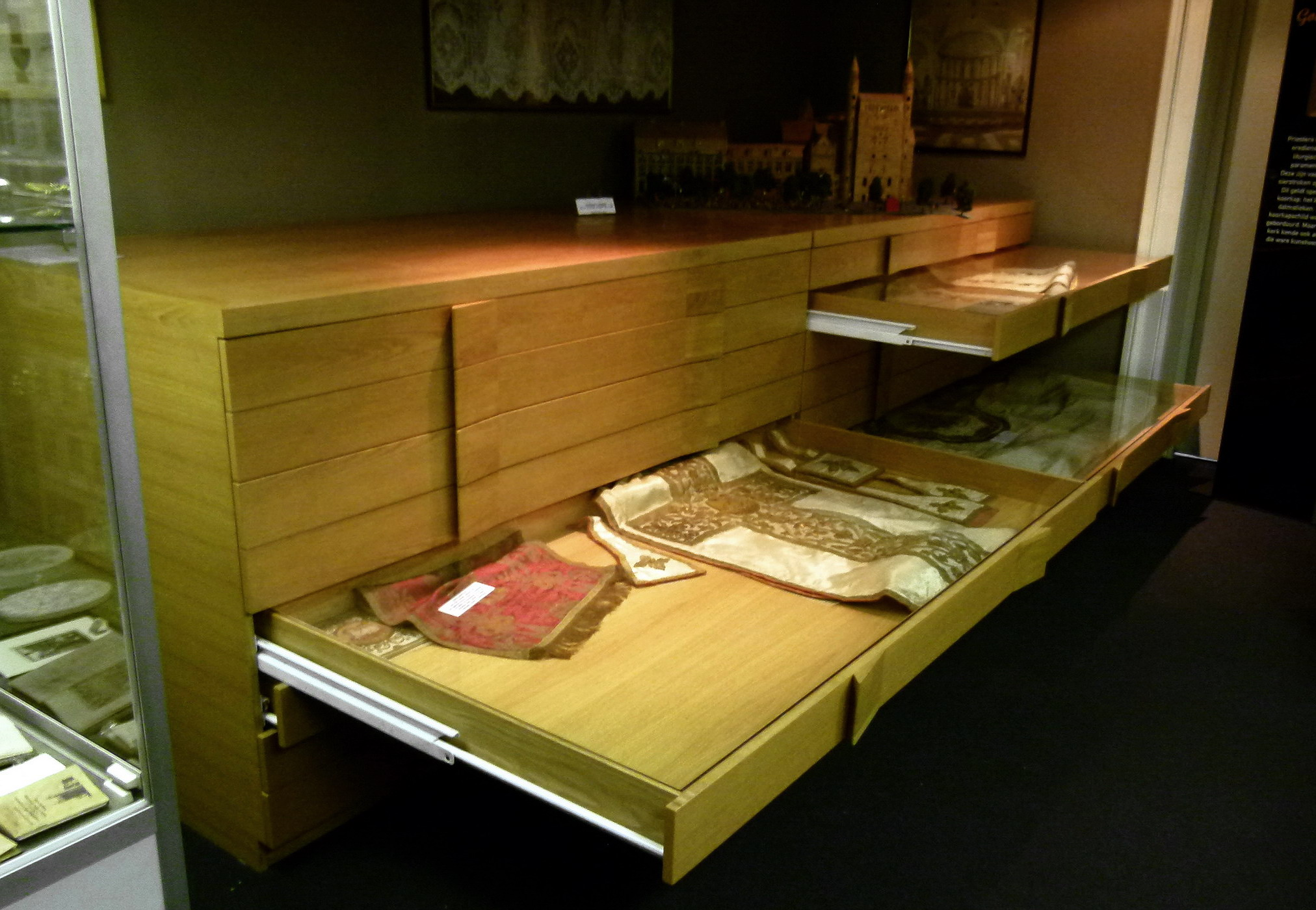 Treasury of the Basilica of Our Lady, Maastricht, the Netherlands. Upper room, textiles cabinet.